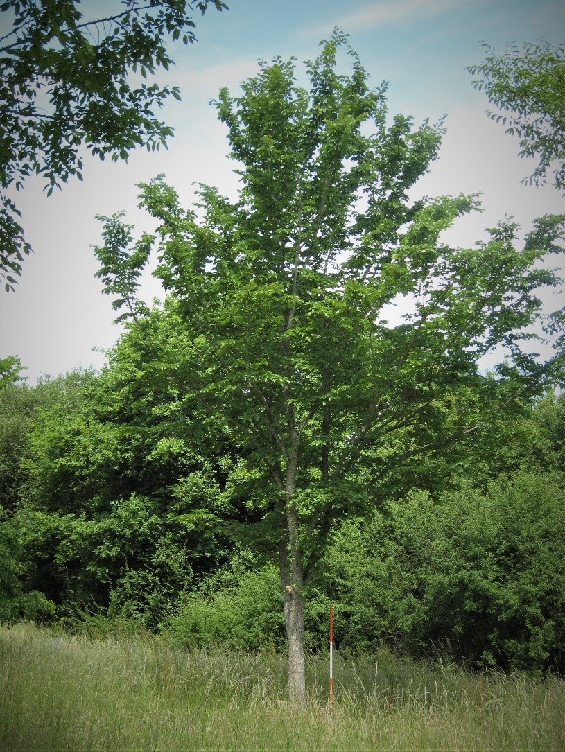 Photo of the elm hybrid cultivar Ulmus 'Morfeo', Great Fontley, England 2020